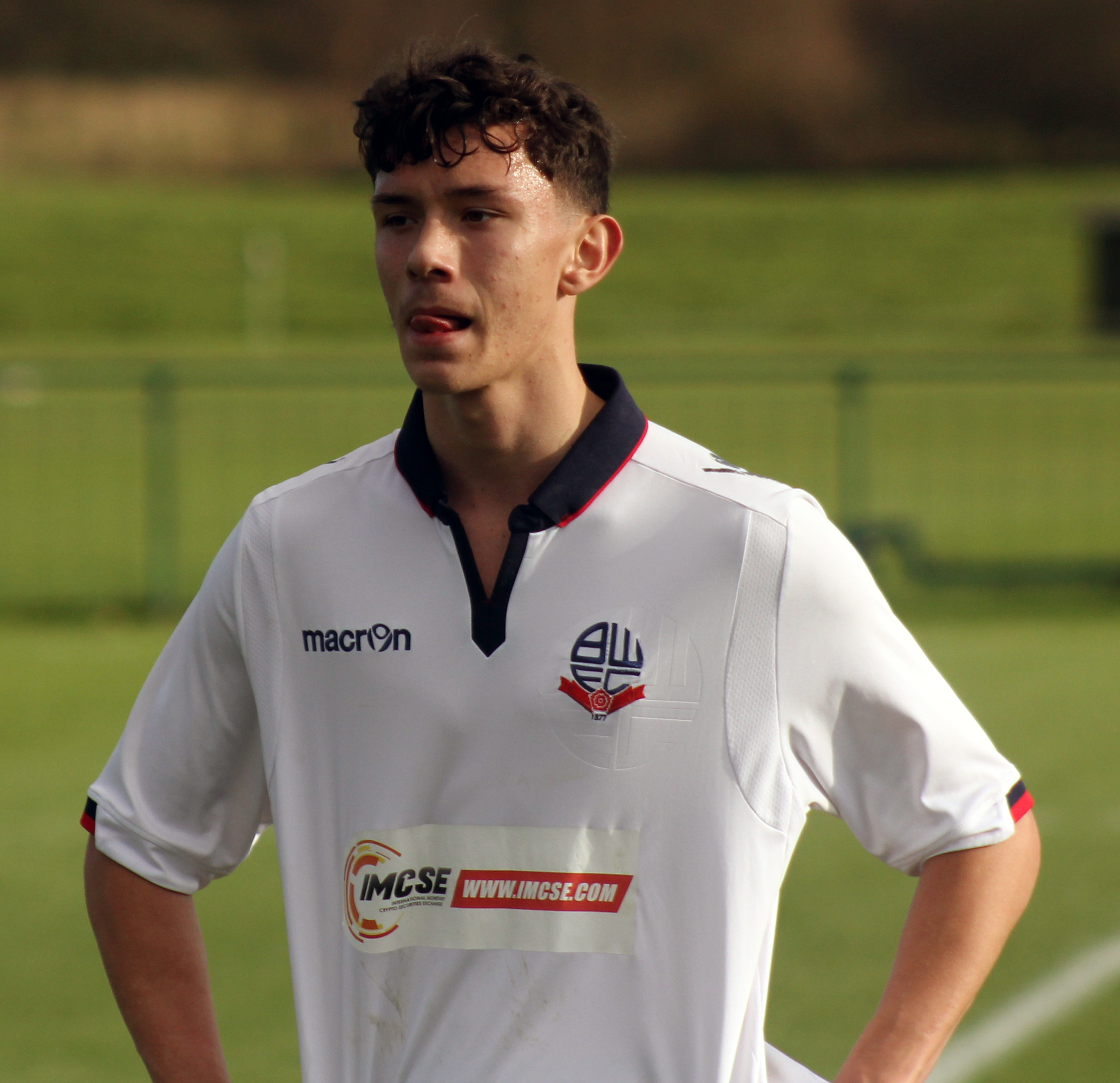 Bolton Wanderers U18s 0-0 Sheffield Wednesday U18s Premier League U18 Professional Development League North Saturday 11 November Eddie Davies Academy